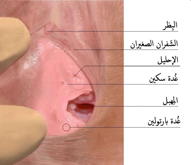 Female glands. Labels in Arabic